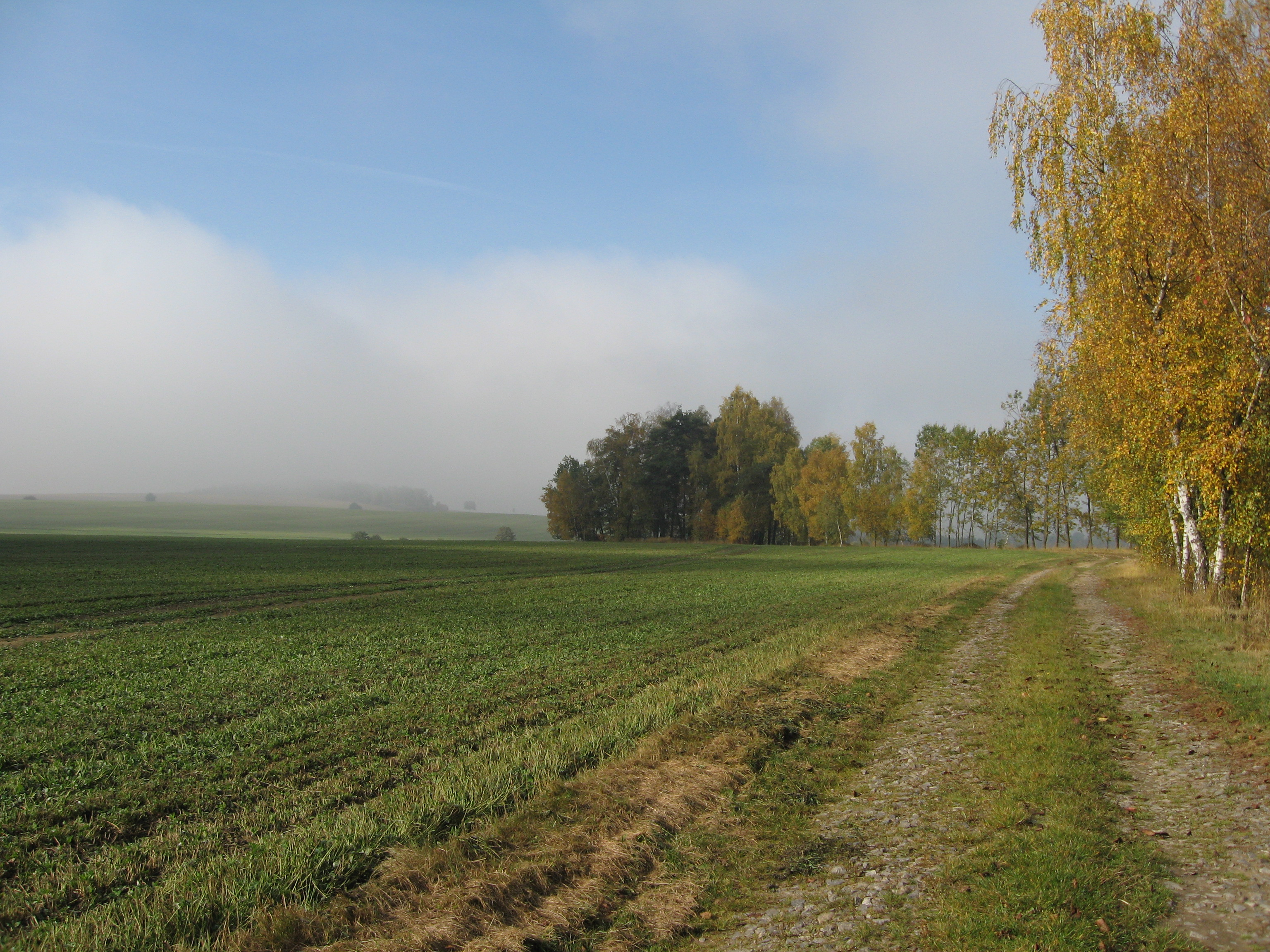 Autumn landscape, the Czech Republic, Vysocina.